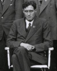 Patrick Blackett, 1935 at Stuttgart on the occasion of a physicists congress.